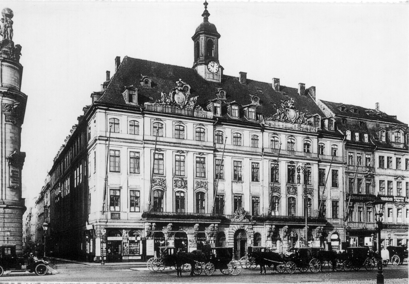 Dresden (Saxony, Germany) - Altstädter Rathaus, around 1910